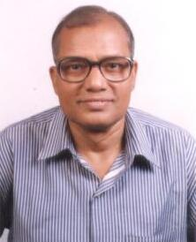 It is the picture of Dr. Binod Bihari Verma, snapped by Rohit Verma in May 2000.